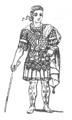 The soldier wears 7 Phalerae (Round plates of metal, used in the Ancient World to decorate a Roman soldier for his bravery = Medal of bravery), three on the breast and two on each side, fixed with straps. Therefore he is called a Phaleratus.